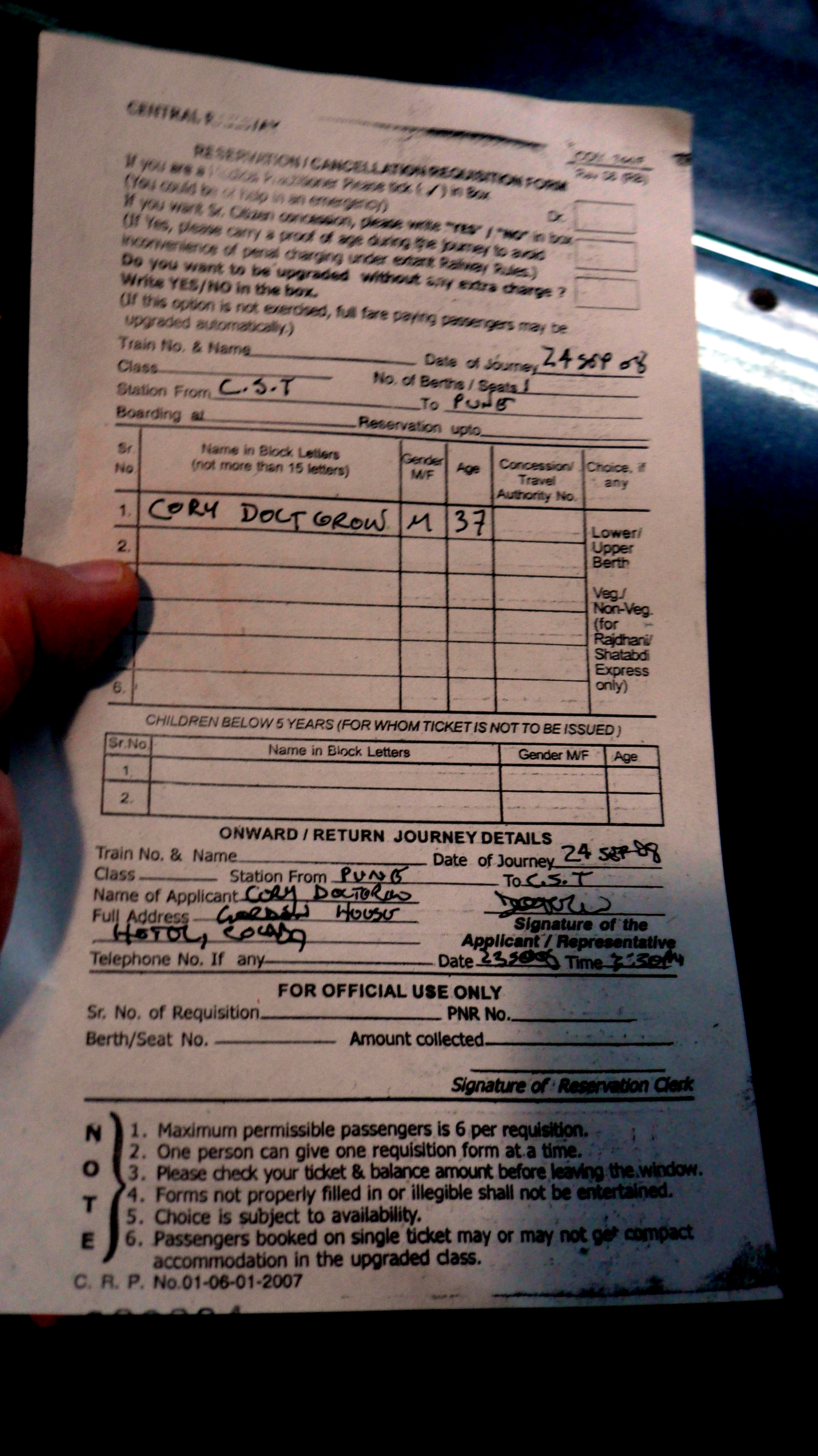 Form to be filled to get a ticket on Indian railways